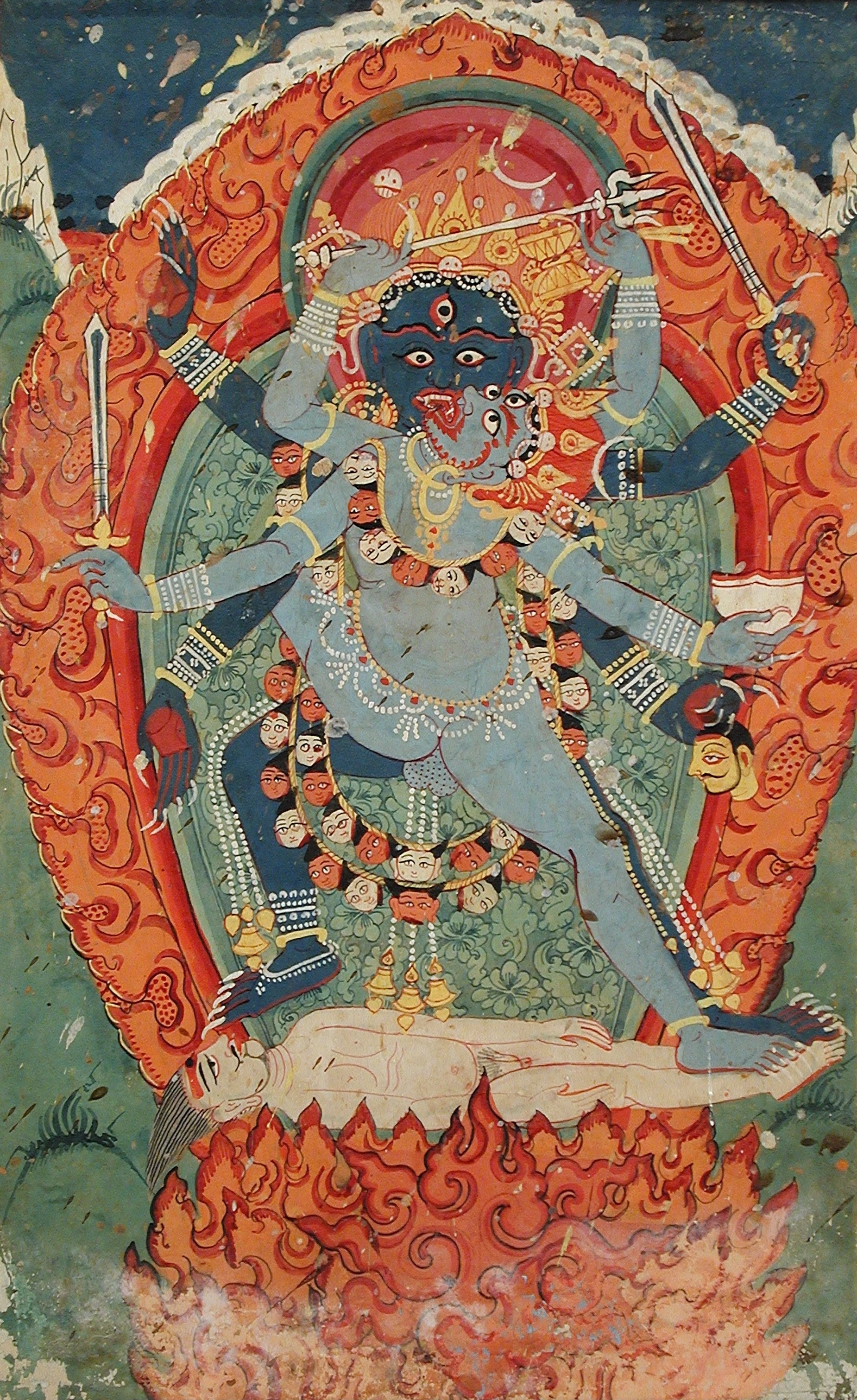 The Hindu Goddess Kali and God Bhairava in Union, Painting; Watercolor, Opaque watercolor on paper, Image: 11 3/4 x 7 5/16 in. (29.85 x 18.57 cm); Sheet: 12 3/16 x 7 1/2 in. (30.96 x 19.05 cm) Made in: Nepal Gift of Dr. and Mrs. Robert S. Coles to LACMA(M.81.206.7)